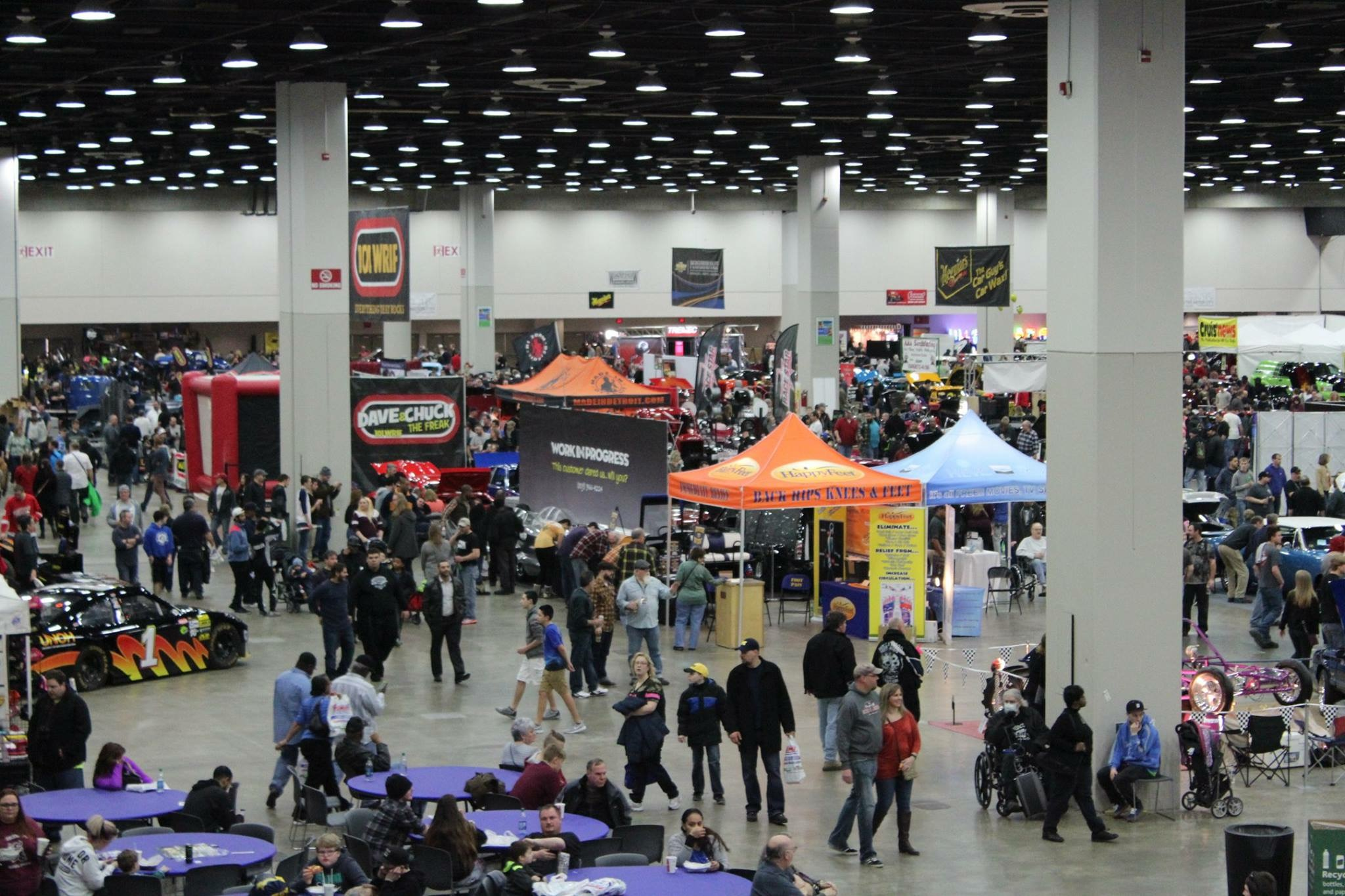 The 64th Annual Detroit Autorama in 2016.